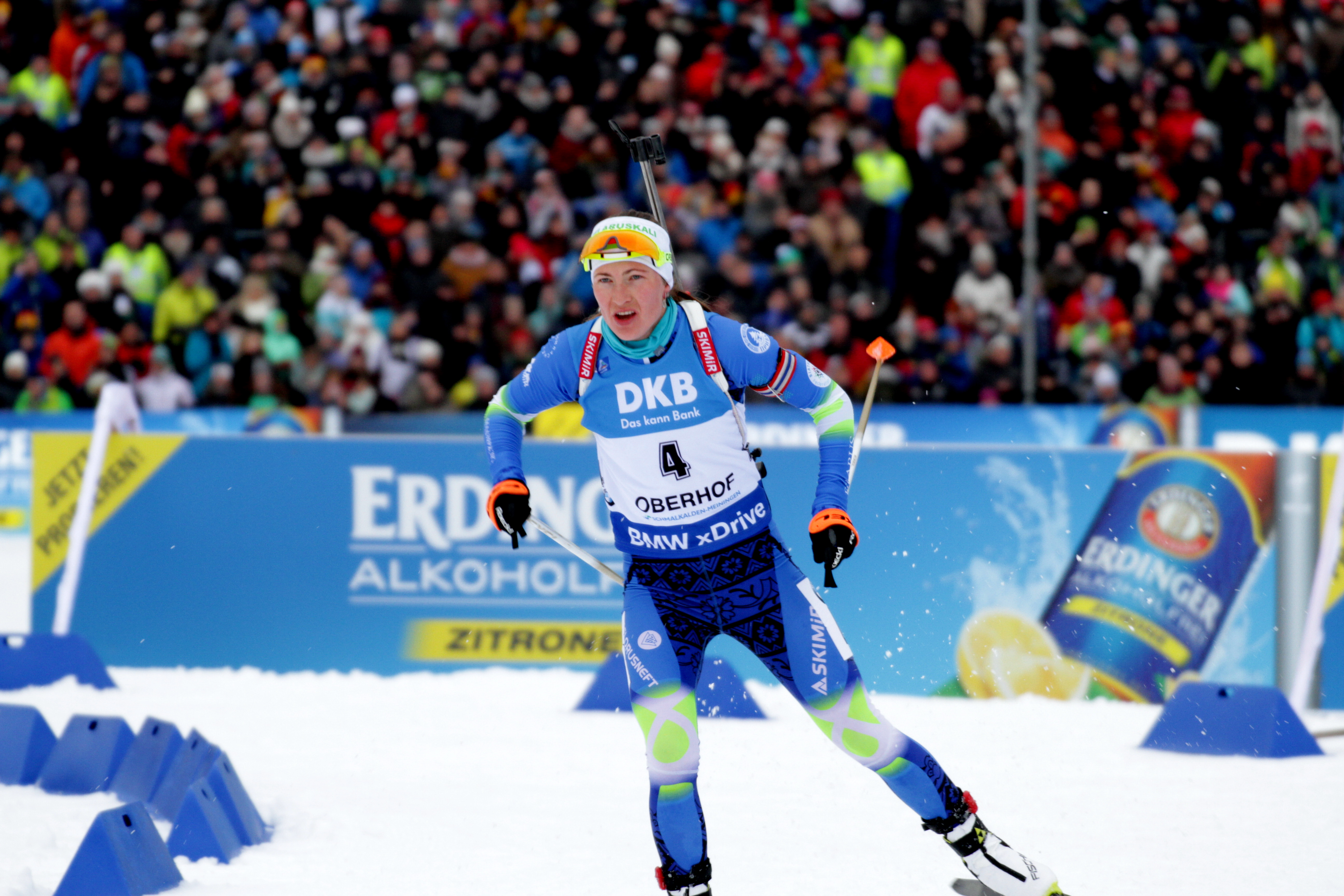 2018 Oberhof Biathlon World Cup - Sprint Women